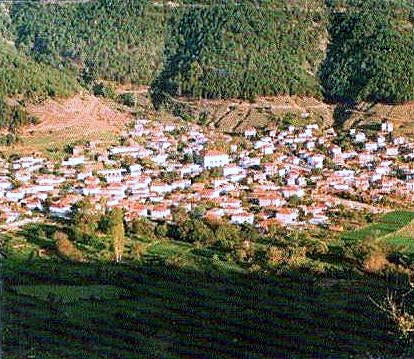 village of Zagorichani (mk: Загоричани, gr: Βασιλειάδα) in Aegean part of Macedonia